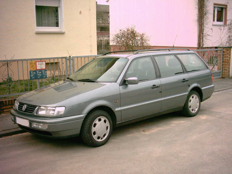 own work